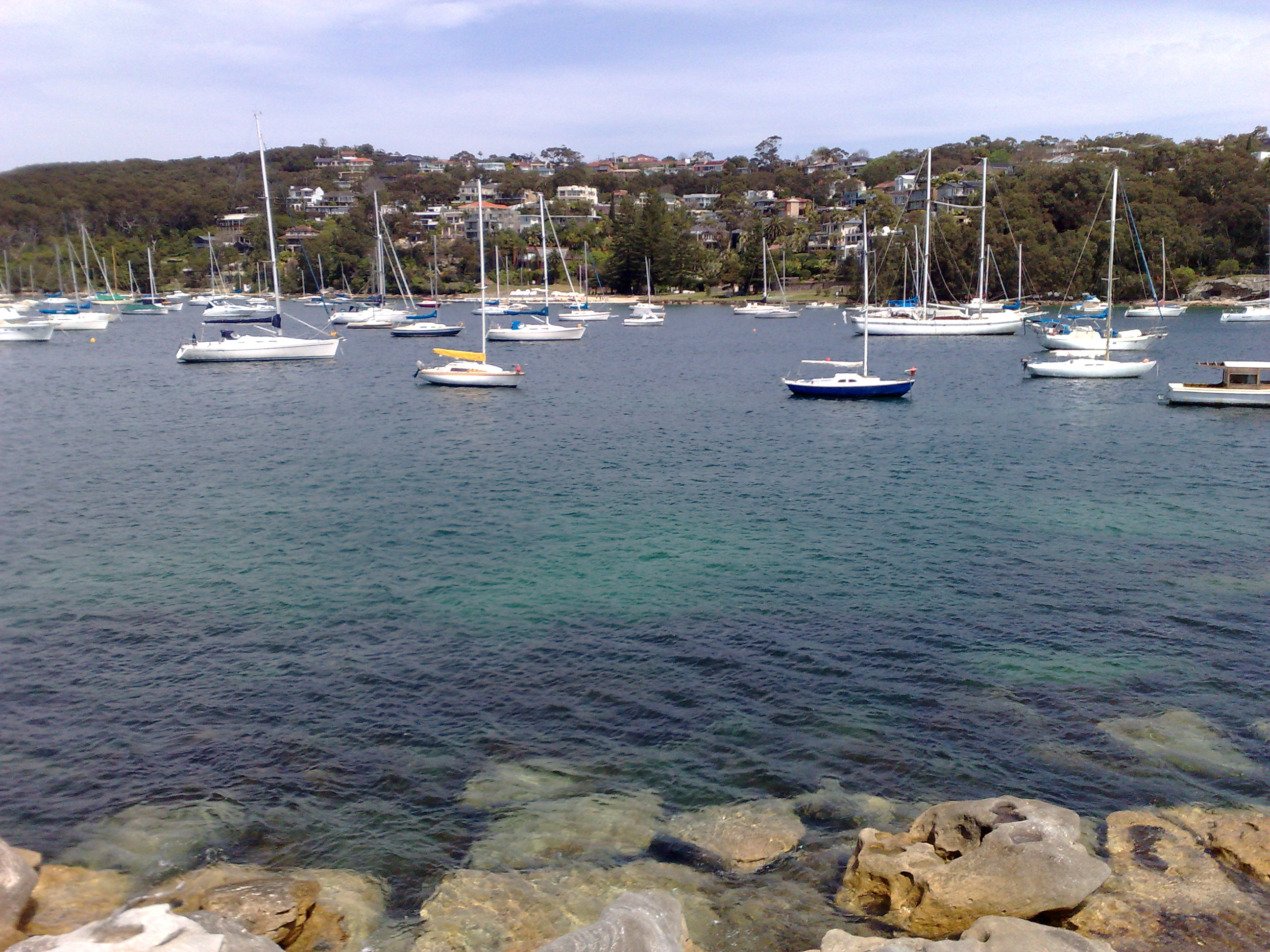 Camera phone upload powered by ShoZu